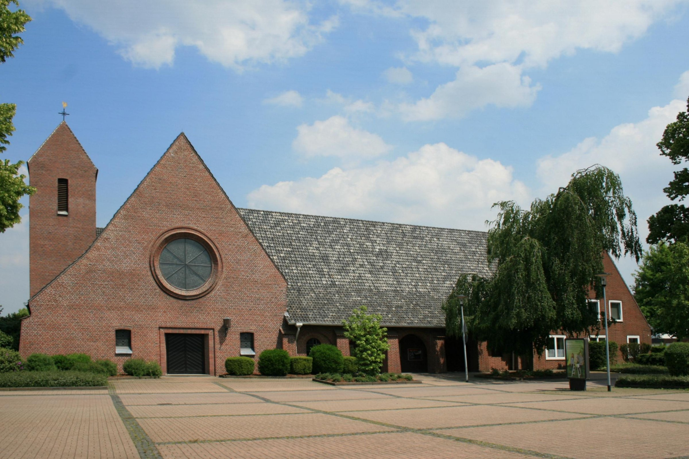 Cultural heritage monument No. G 042 in Mönchengladbach